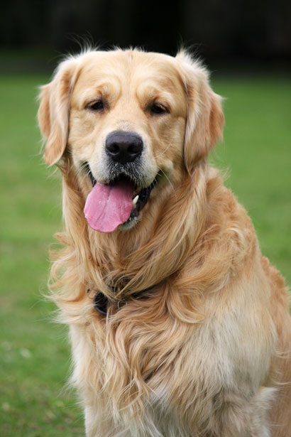 Portrait of a beautiful Golden Retriever dog